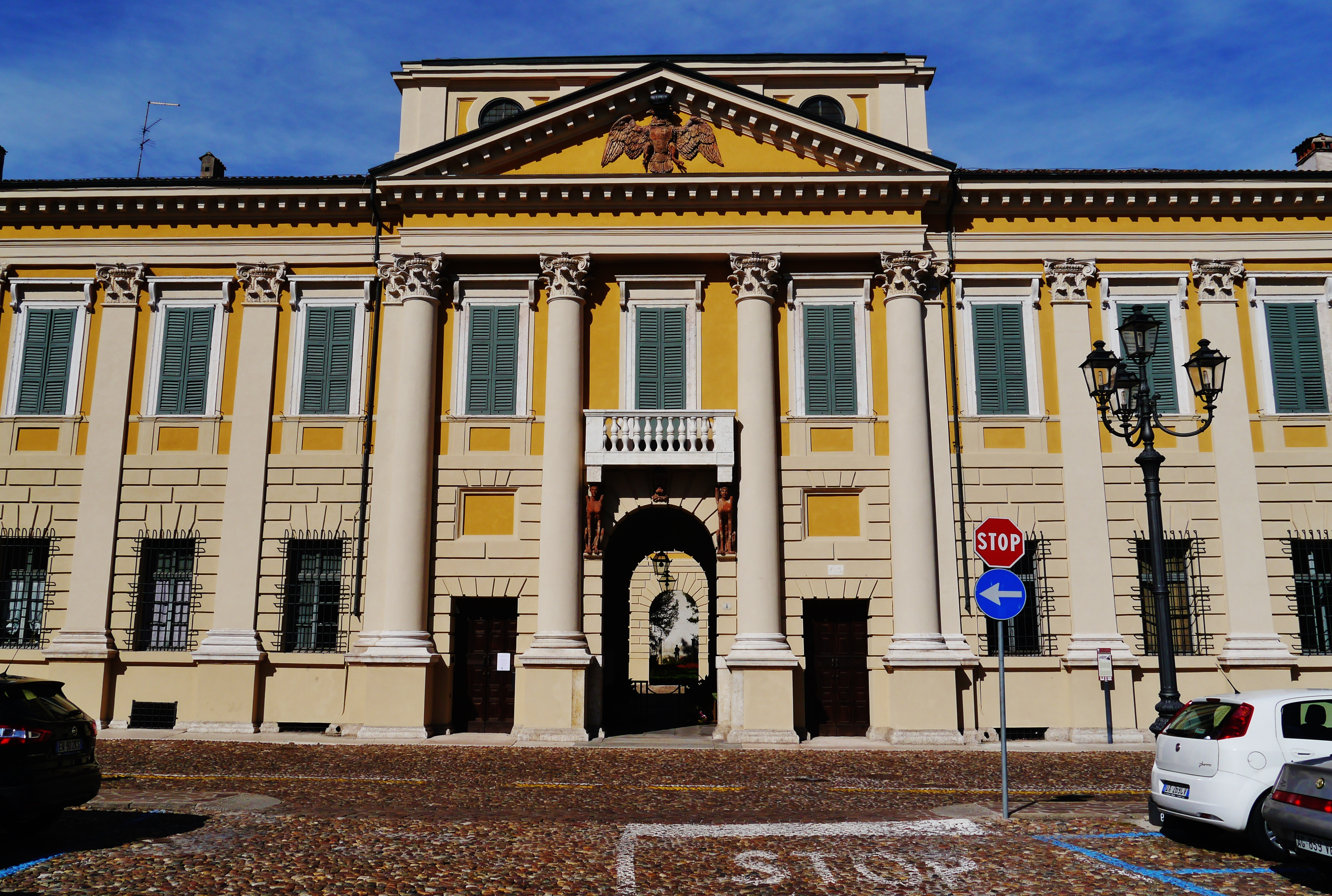 Facade of the Arco Palace, Mantua, Province of Mantua, Region of Lombardy, Italy